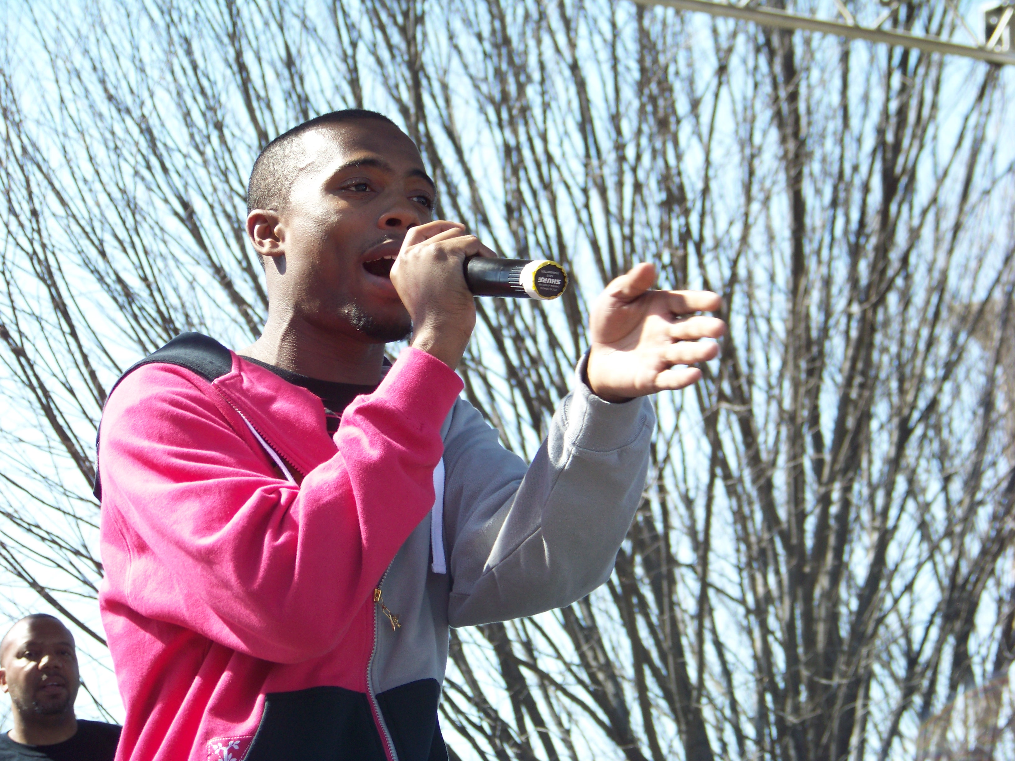 Rapper B.o.B performing in Atlanta, Georgia.